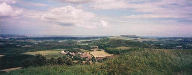 Purbeck Panorama A view across the Isle of Purbeck from Creech Hill. The chalk ridge clearly visible leading the eye to Poole Bay beyond. On the far horizon is the Isle of Wight with Poole Harbour in the distance on the left.